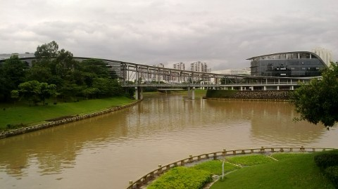 This is a picture I took of the Shenzhen University Town Library from the PKU campus.